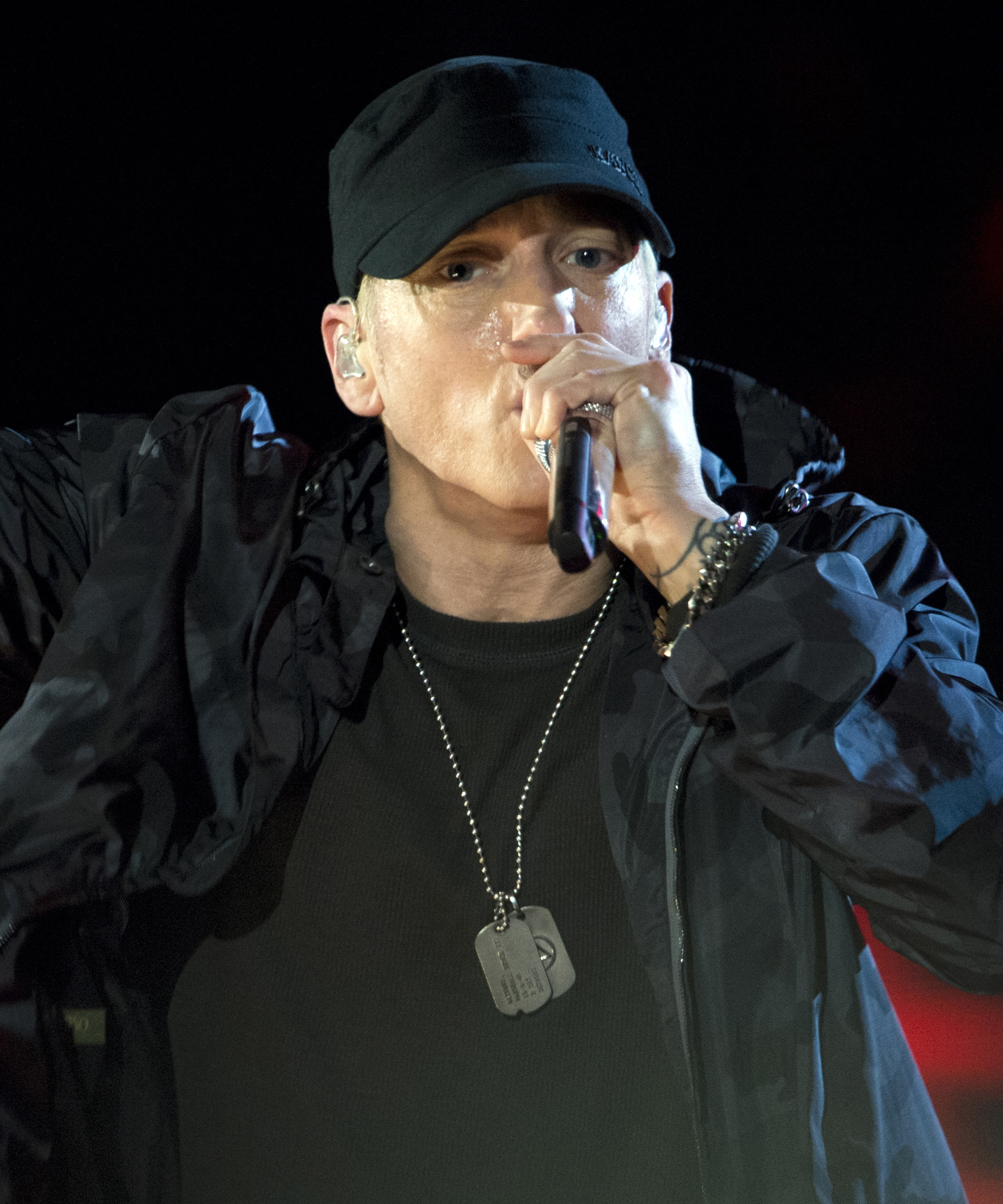 Eminem performs during The Concert for Valor in Washington, D.C. Nov. 11, 2014. DoD News photo by EJ Hersom